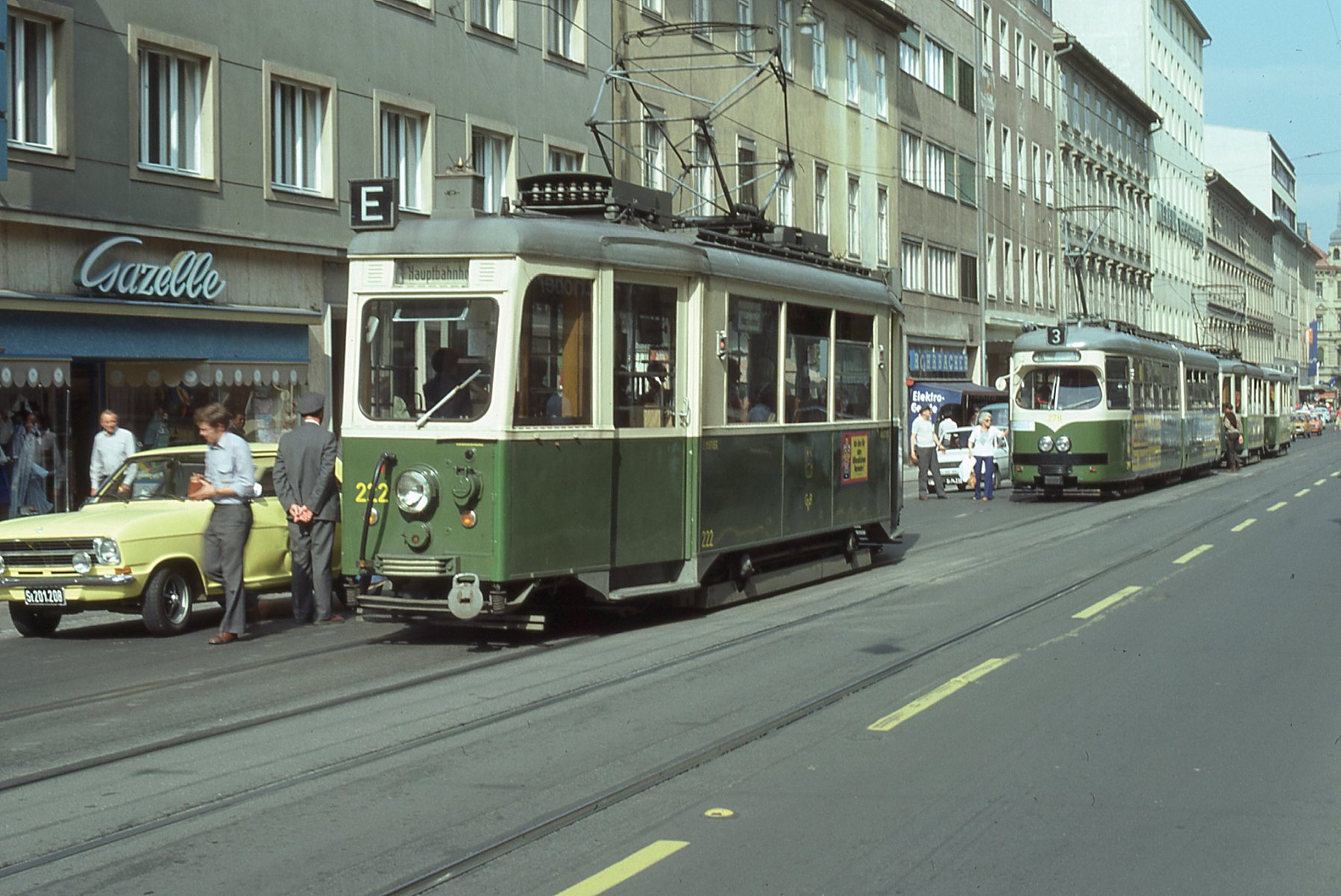 Graz tramways, car 222 on line E, probably after an accident.